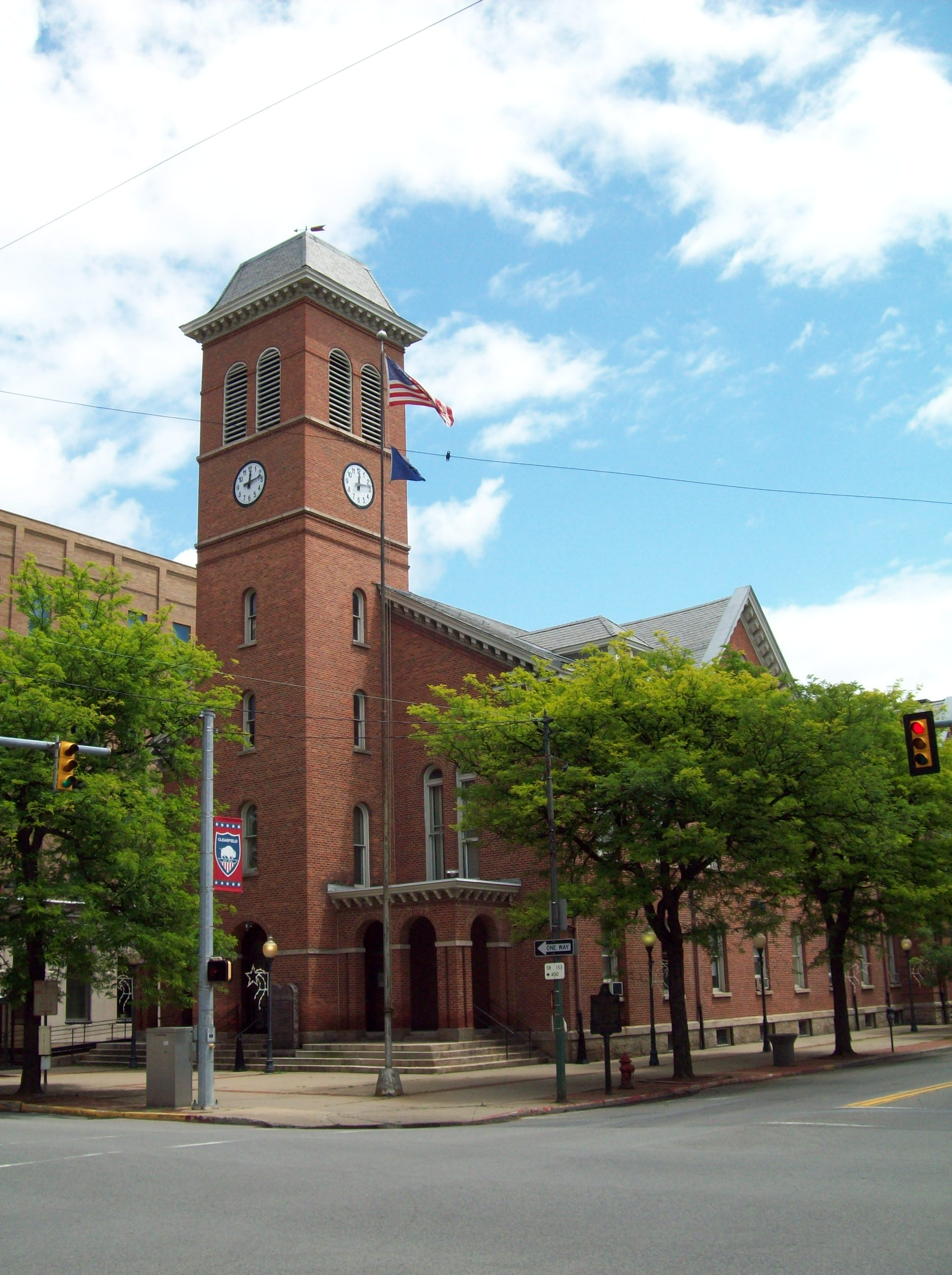 Clearfield County Courthouse, June 2009